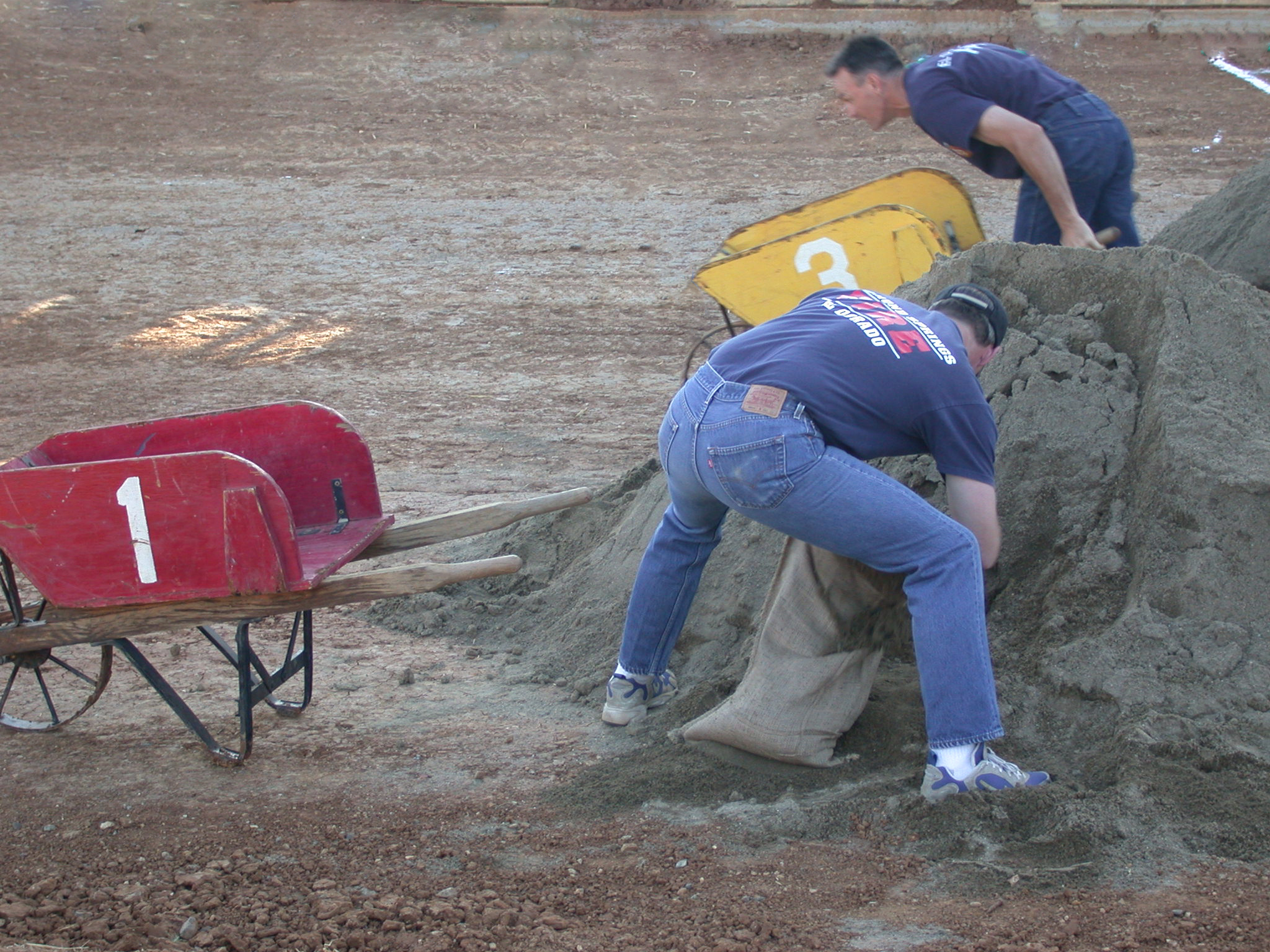 El Dorado County Fair 2003